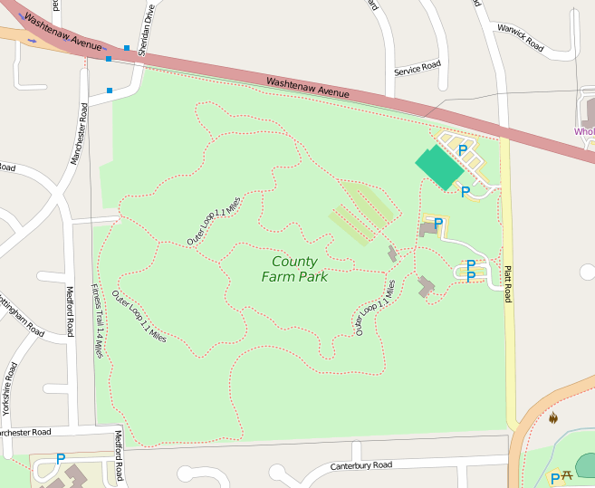 A map of County Farm Park in Ann Arbor, Michigan, created by the OpenStreetMap community.